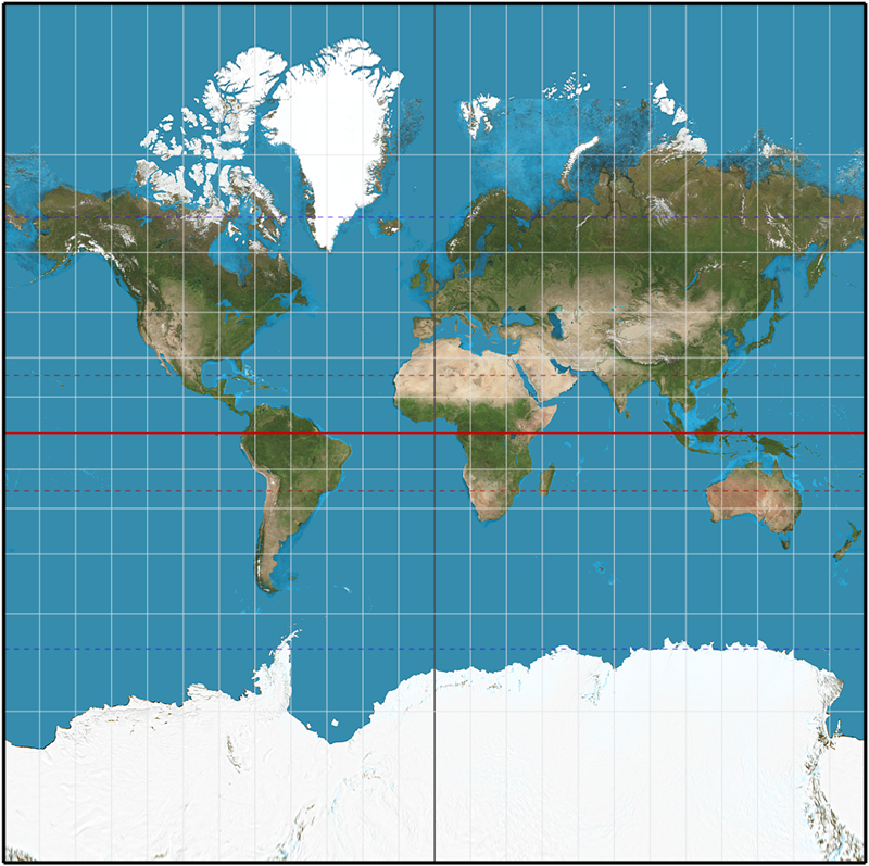 The normal (equatorial) Mercator projection on the sphere. It is truncated where y equals (plus/minus) pi (in units of earth radius, corresponding to a latitude of approximately 85 degrees. Produced using Geocart from [1]